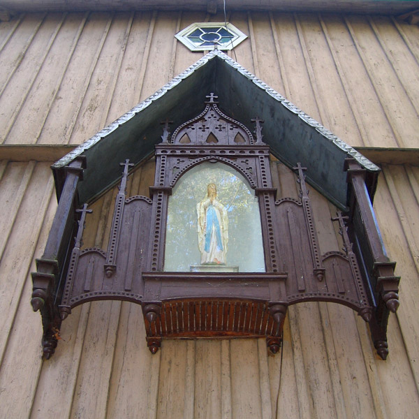 Catholic church in Kapciamiestis detail, Lithuania